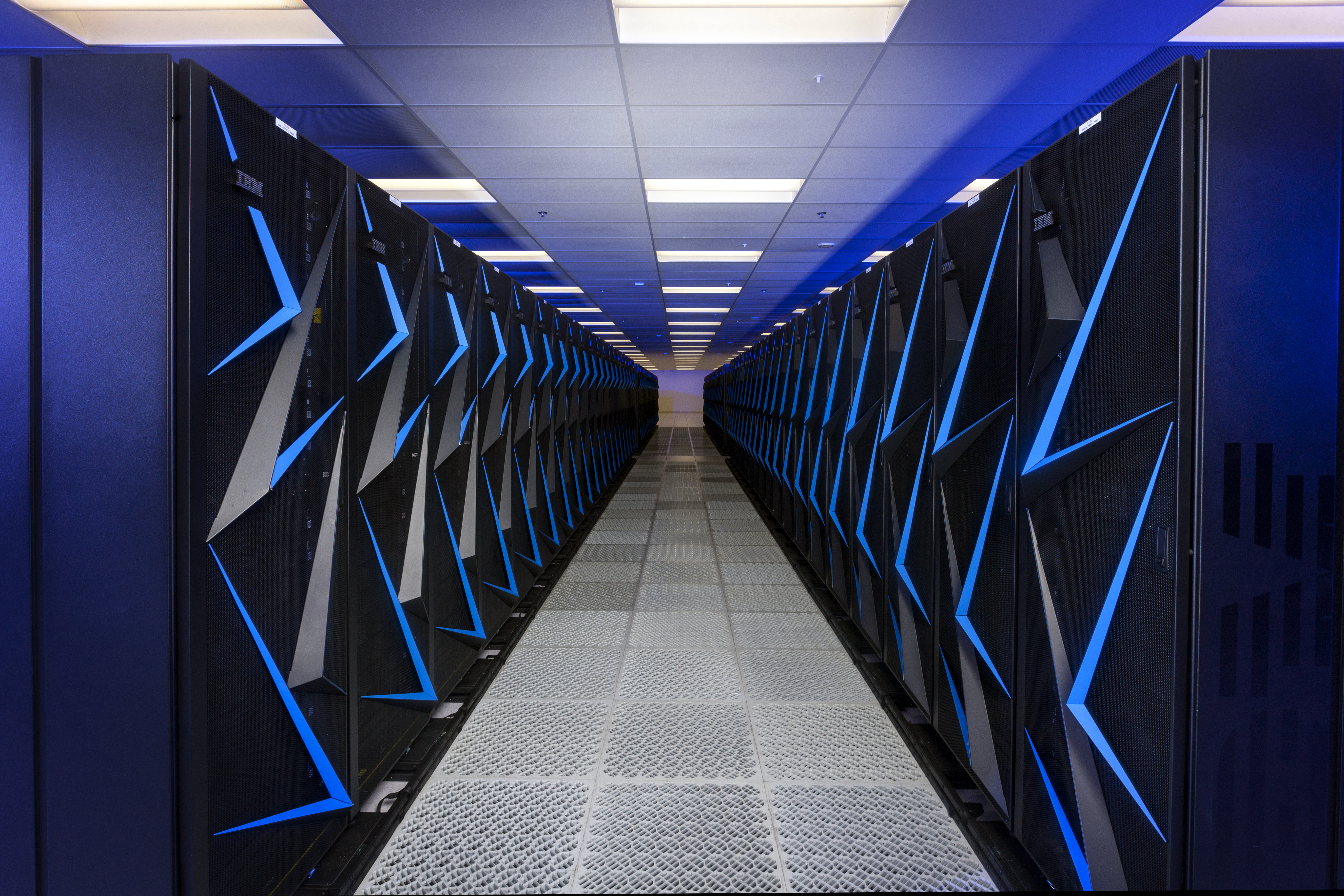 AT LLNL, THE SIERRA SUPERCOMPUTER WILL BE A 125-petaFLOPS (FLOATING POINT OPERATION PER SECOND) PEAK PERFORMANCE MACHINE, PROJECTED TO PROVIDE FOUR TO SIX SUSTAINED PERFORMANCE OF THE LAB’S CURRENT WORKHORSE SYSTEM SEQUOIA. IT ROSE OUT OF DOE’S COLLABORATION OF OAK RIDGE, ARGONNE, AND LIVERMORE (CORAL) PARTNERSHIP, WHICH IS CULMINATING IN THE DELIVERY OF LARGE- SCALE, HIGH PERFORMANCE SUPERCOMPUTERS AT EACH OF THE THREE NATIONAL LABORATORIES. IT WILL FEATURE TWO IBM POWER 9 PROCESSORS AND 4 NVIDIA VOLTA GPUs PER NODE. POWER 9s WILL PROVIDE A LARGE AMOUNT OF MEMORY BANDWIDTH FROM THE CHIPS TO SIERRA’S DDR4 MAIN MEMORY AND THE LAB’S WORKLOAD WILL BENEFIT FROM THE USE OF SECOND-GENERATION NVLINK, FORMING A HIGH-SPEED CONNECTION BETWEEN THE CPUs AND GPUs. For more information or additional images: (202) 586-5251